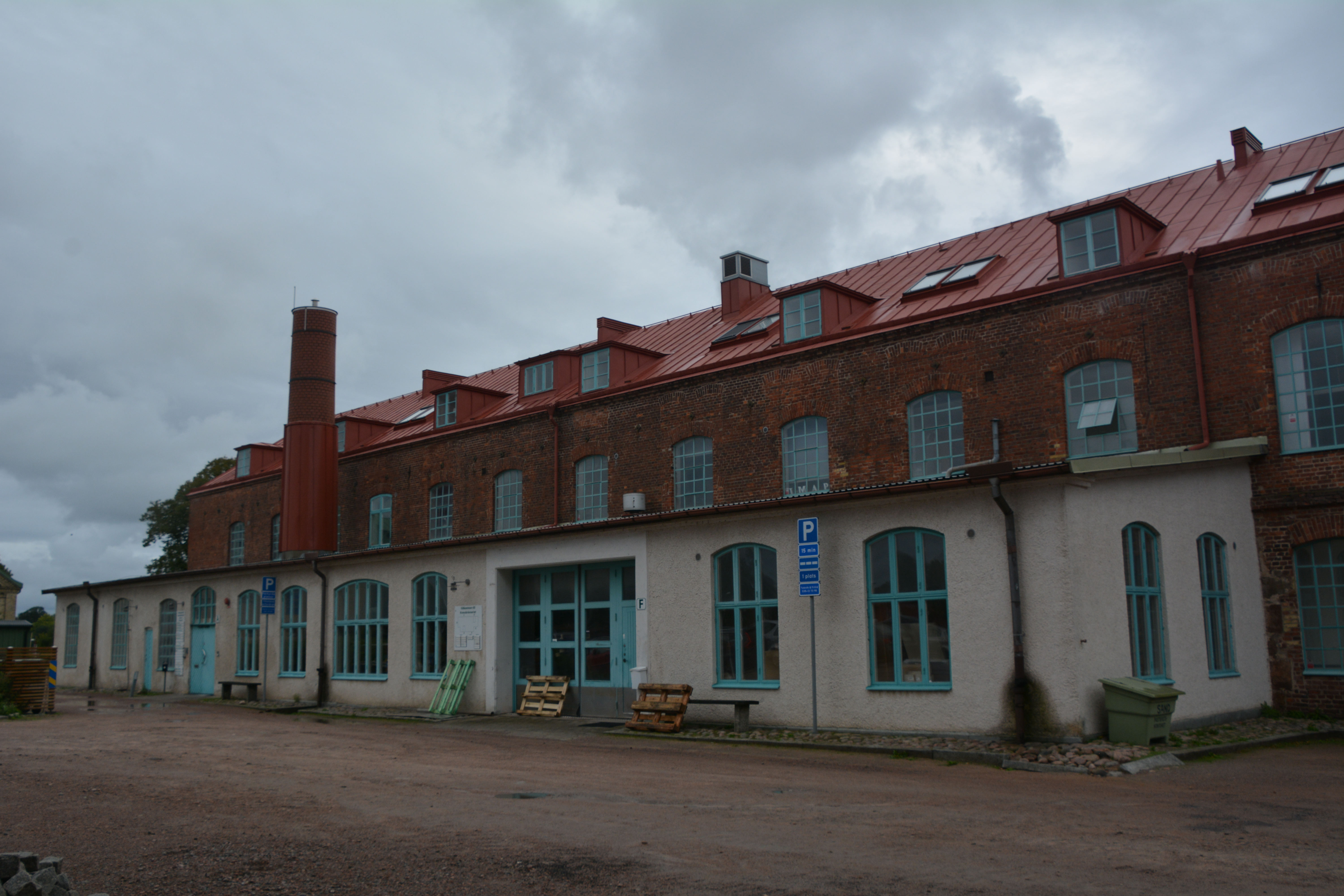 Kronobränneriet i Halmstad